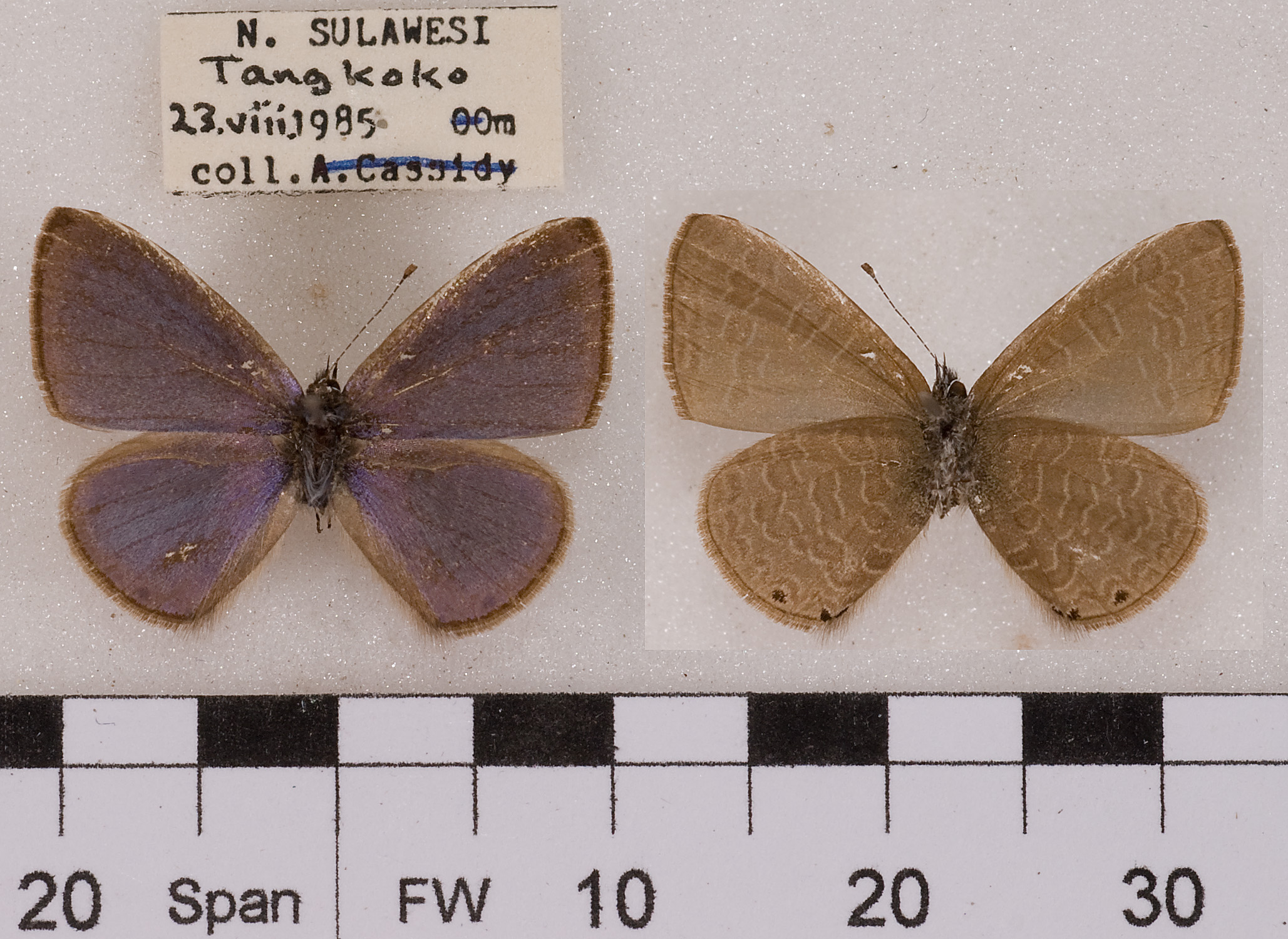 Petrelaea dana, male, set specimen, Sulawesi, Alan Cassidy photo.